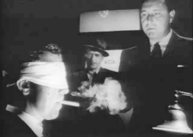 Screenshot from the film Murder, My Sweet.